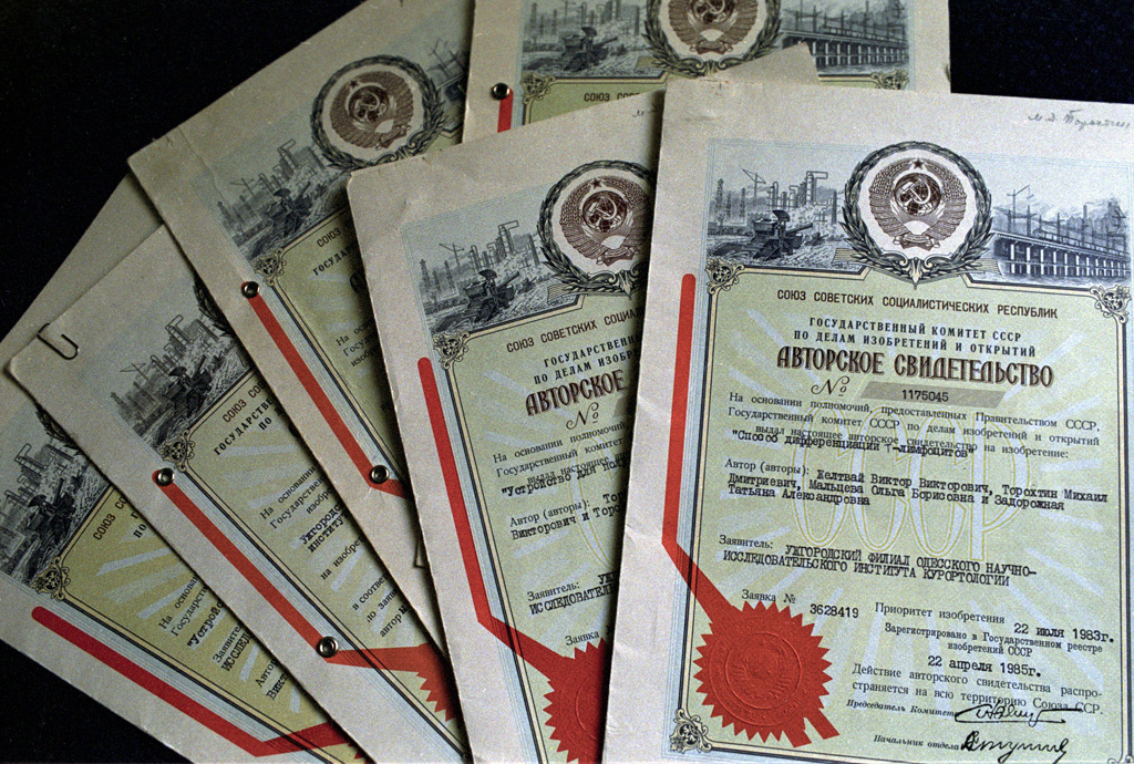 “Copyright certificates”. Copyright certificates issued by the USSR state committee for invention and discovery register new methods and equipment used in treatment of various diseases.